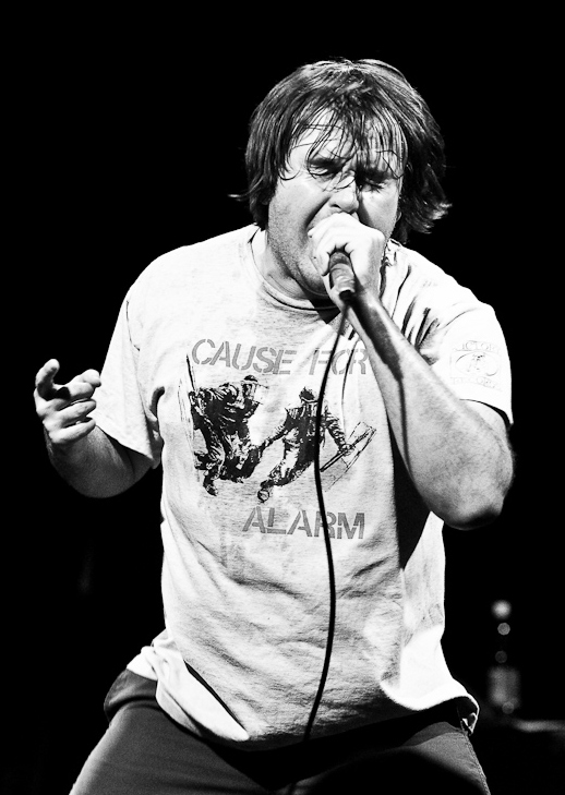 Mark "Barney" Greenway of Napalm Death at Klubi, Tampere